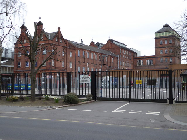 Photograph of the former Ind Coope Brewery, Burton upon Trent, Staffordshire, England